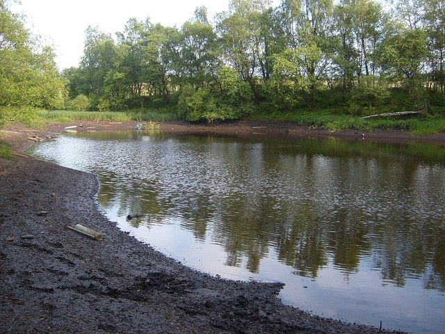 Glencryan Dam This reservoir the result of the damming of the Glencryan burn which flows from the direction of Palacerigg. It is located above the mine adit and has a sluice to the S.W. side which regulates the level of the water. It was likely used as a water supply for the mining operations.